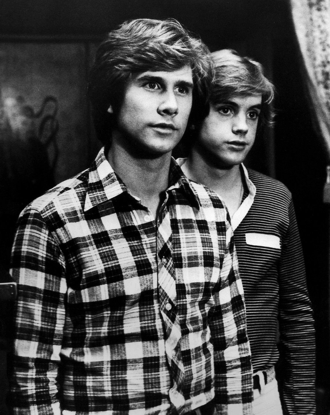 Photo of Parker Stevenson (left) and Shaun Cassidy (right) as the Hardy Boys from the television series.